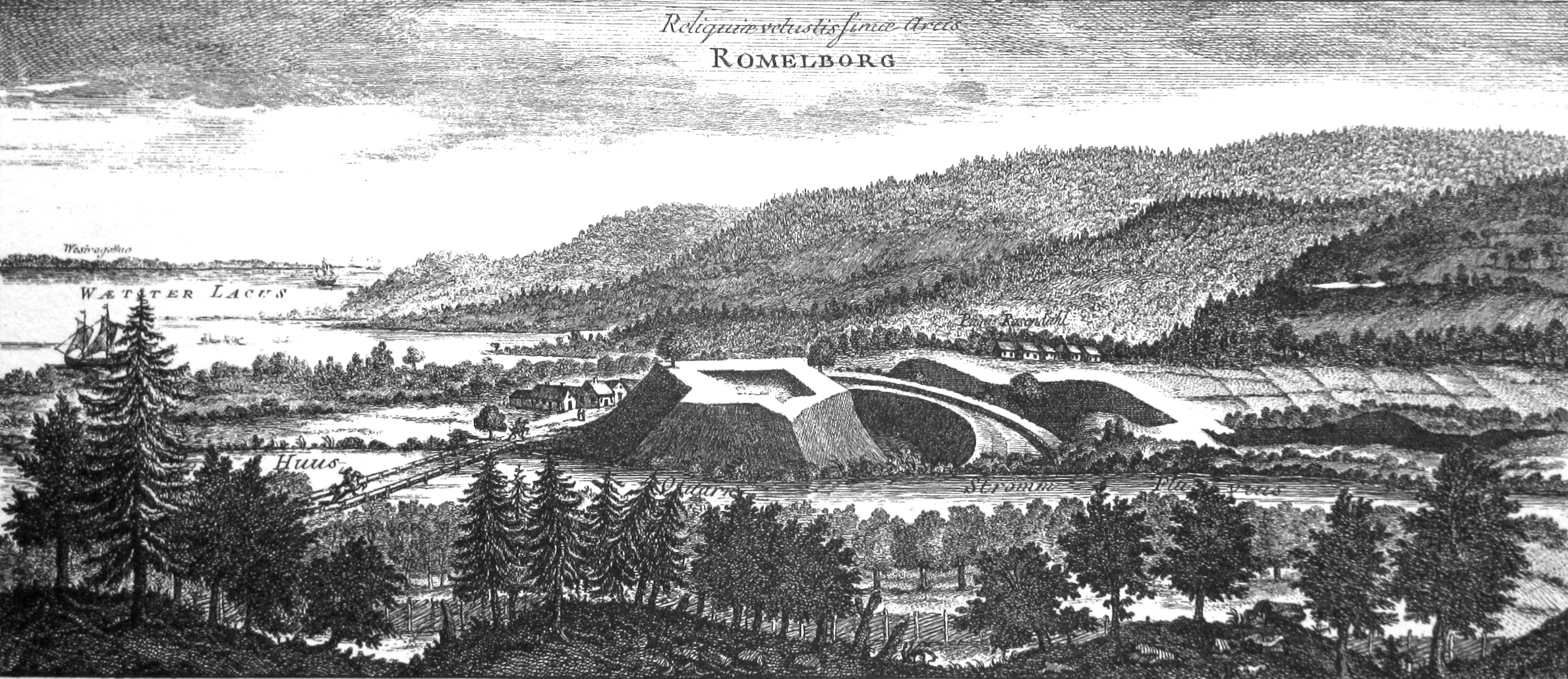 Rumlaborg castle Sweden